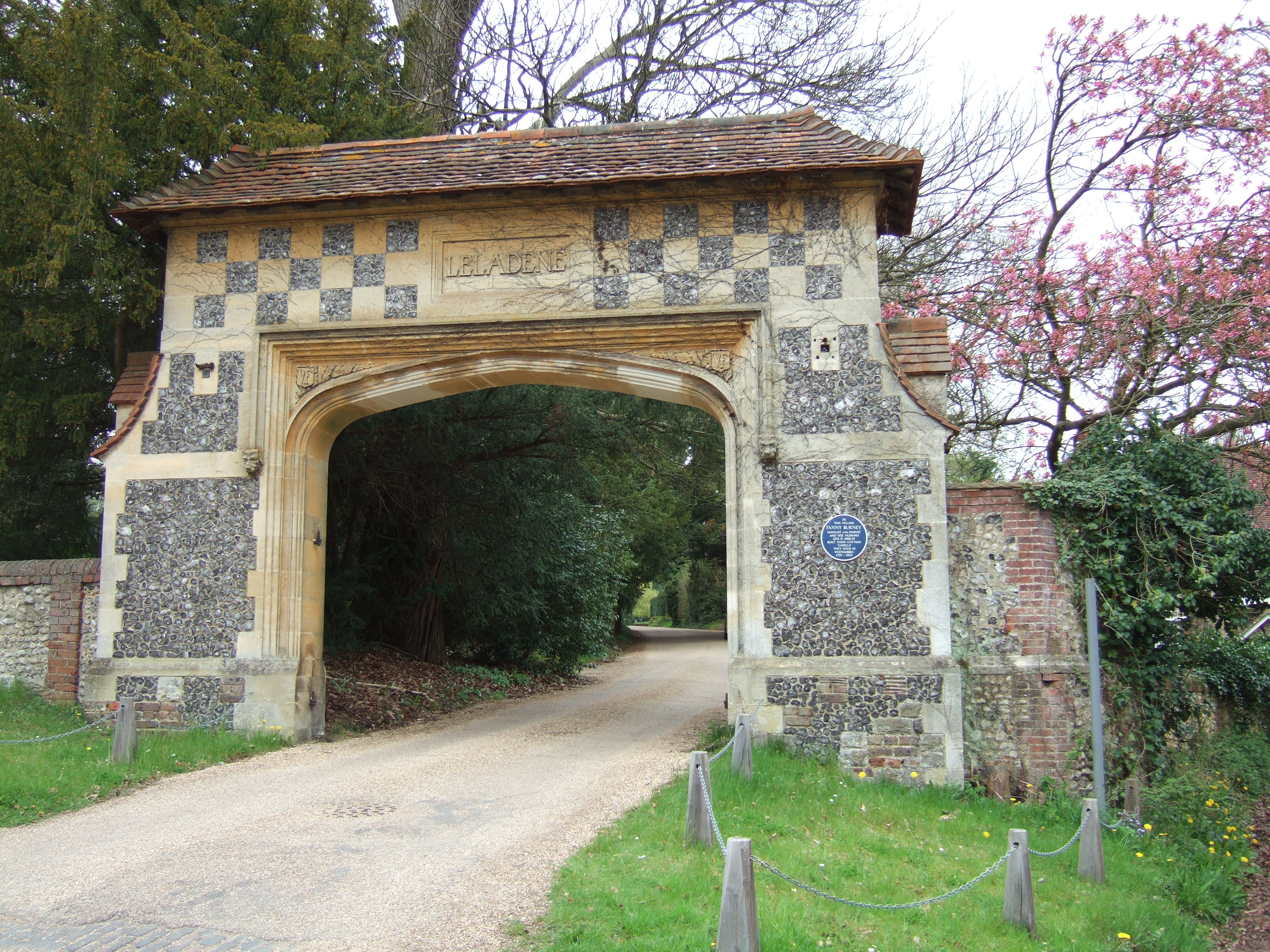 Arch Leading to 'Camilla'. The blue plaque reads: "In this village, Fanny Burnley, novelist and diarist and her husband Gen. D'Arblay built their cottage 'Camilla'. They lived in Westhumble 1797-1801."